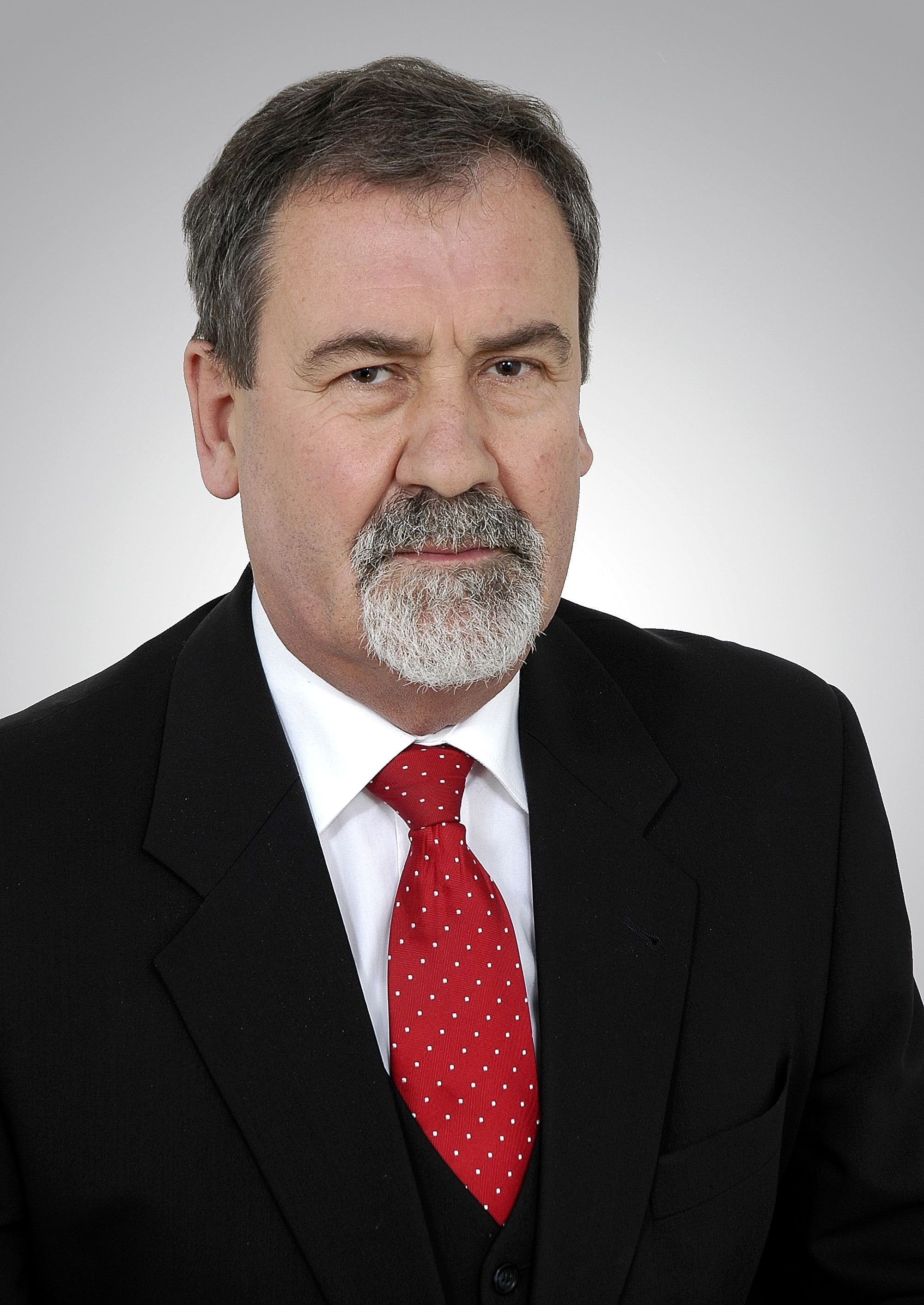 Senator Jan Wyrowiński